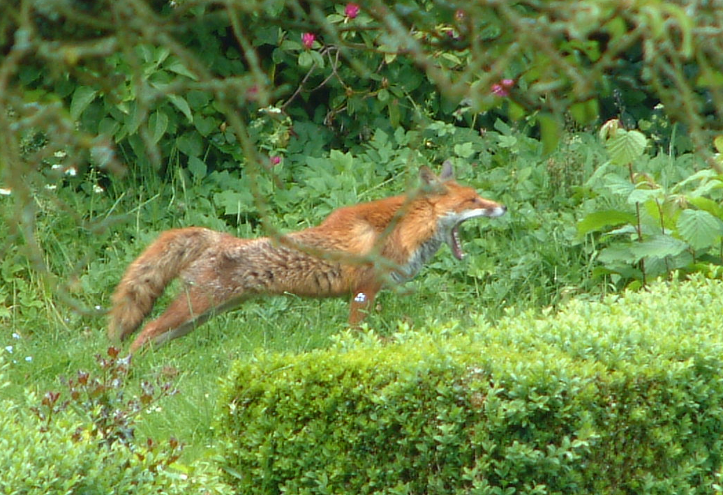 Yawning fox, photo taken in a garden in Sevenoaks, Kent, United Kingdom.